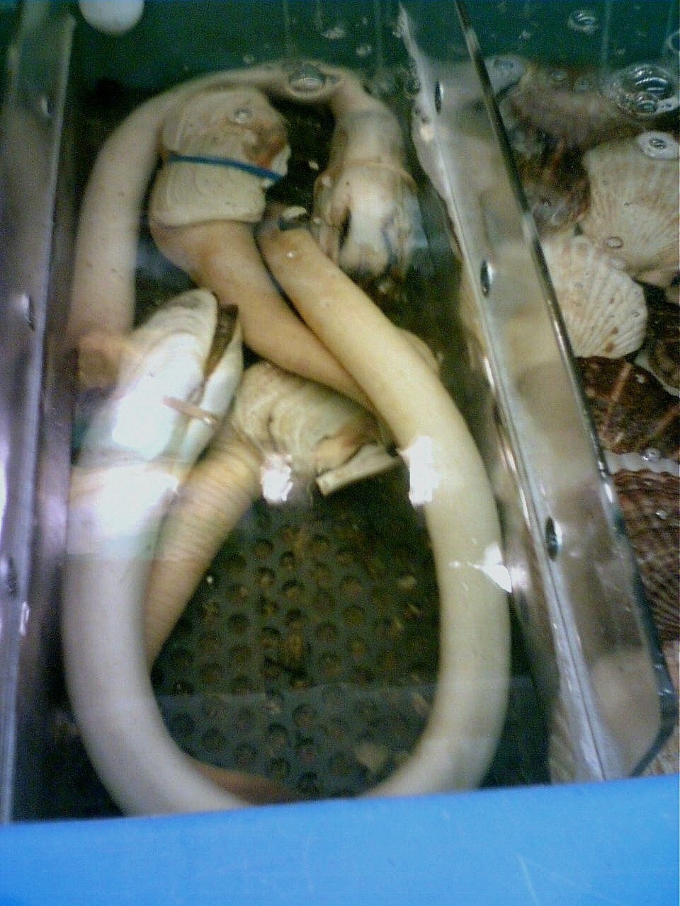 public domain Geoduck clam in seafood tank in Richmond BC Canada